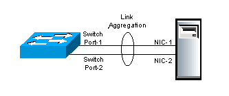 Link aggregation example